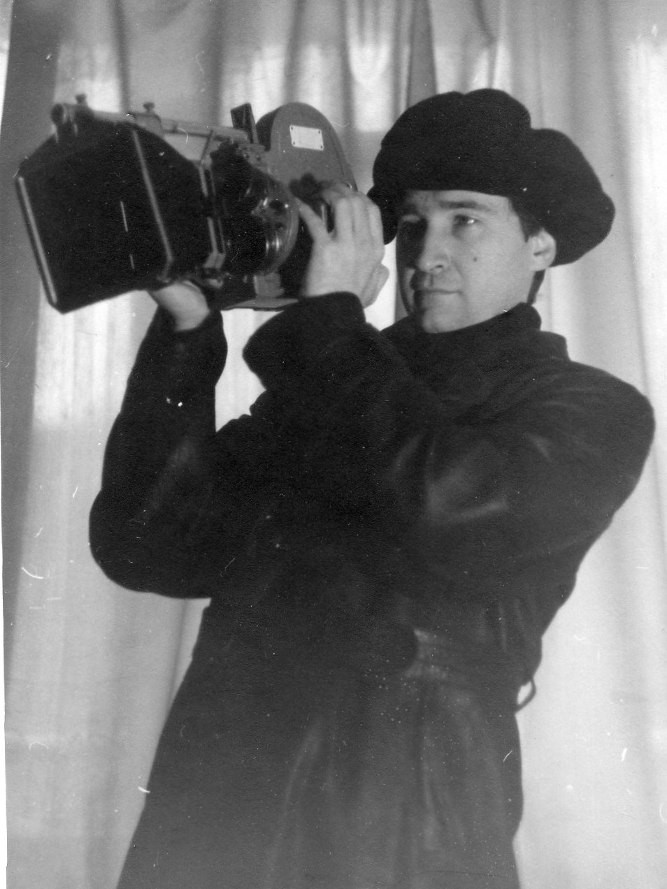 director experimental cinema Dmitri Frolov